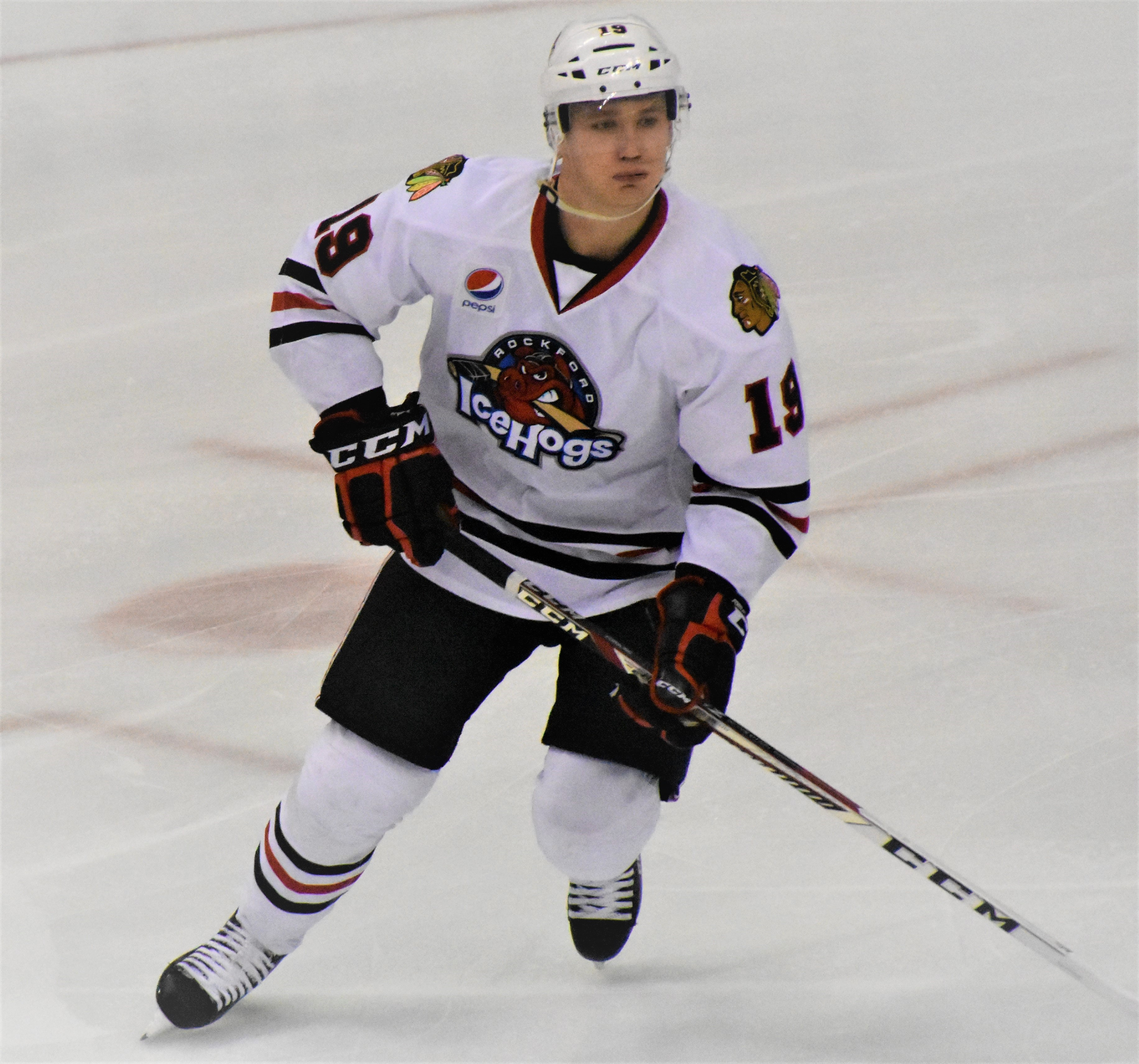 Ice hockey player Gustav Forsling of Rockford Icehogs. The photo has been cropped and brightened up a bit.